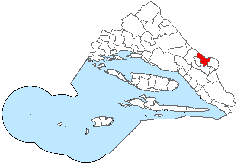 Position of municipality inside Split-Dalmatia County